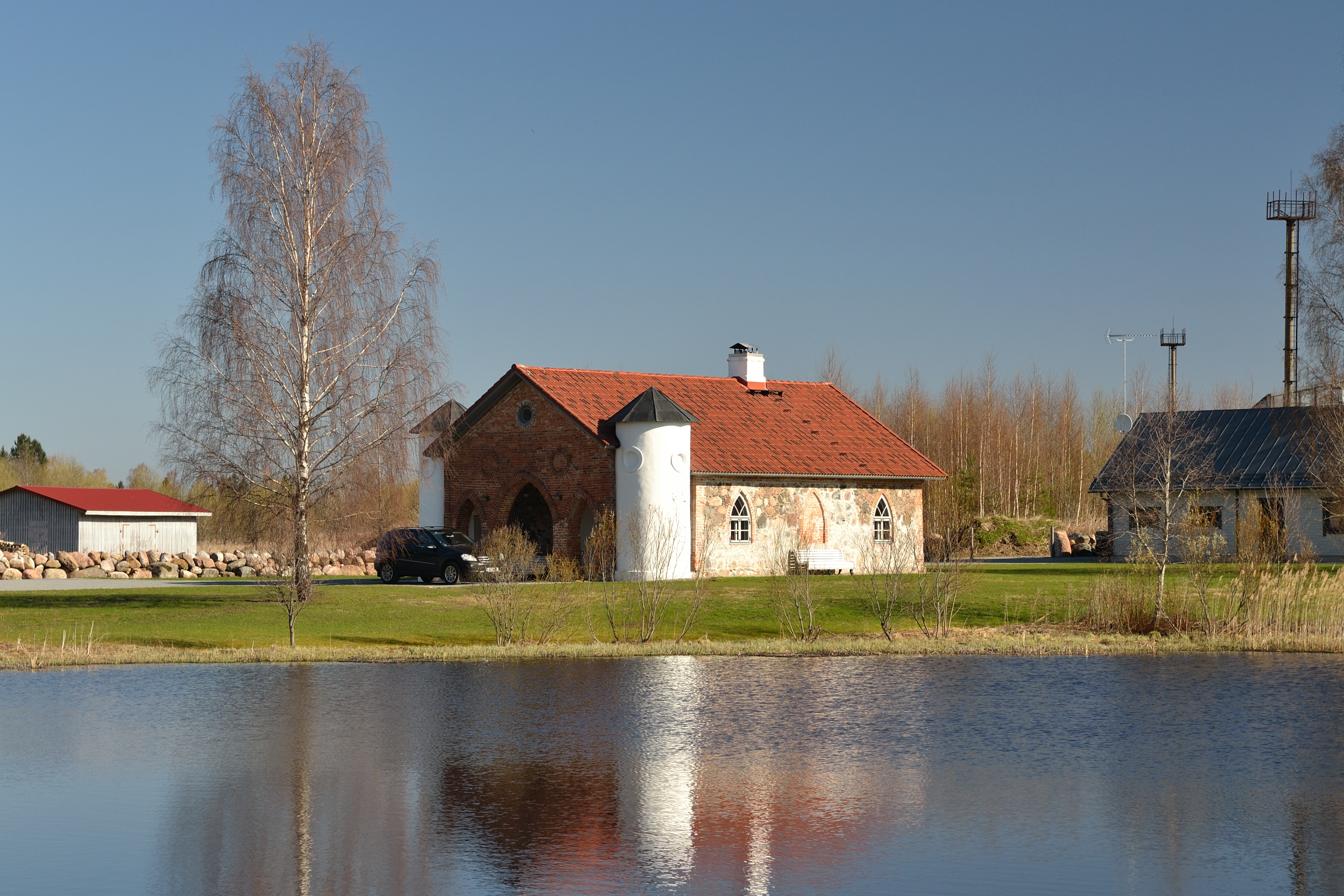 Käru manor smithy